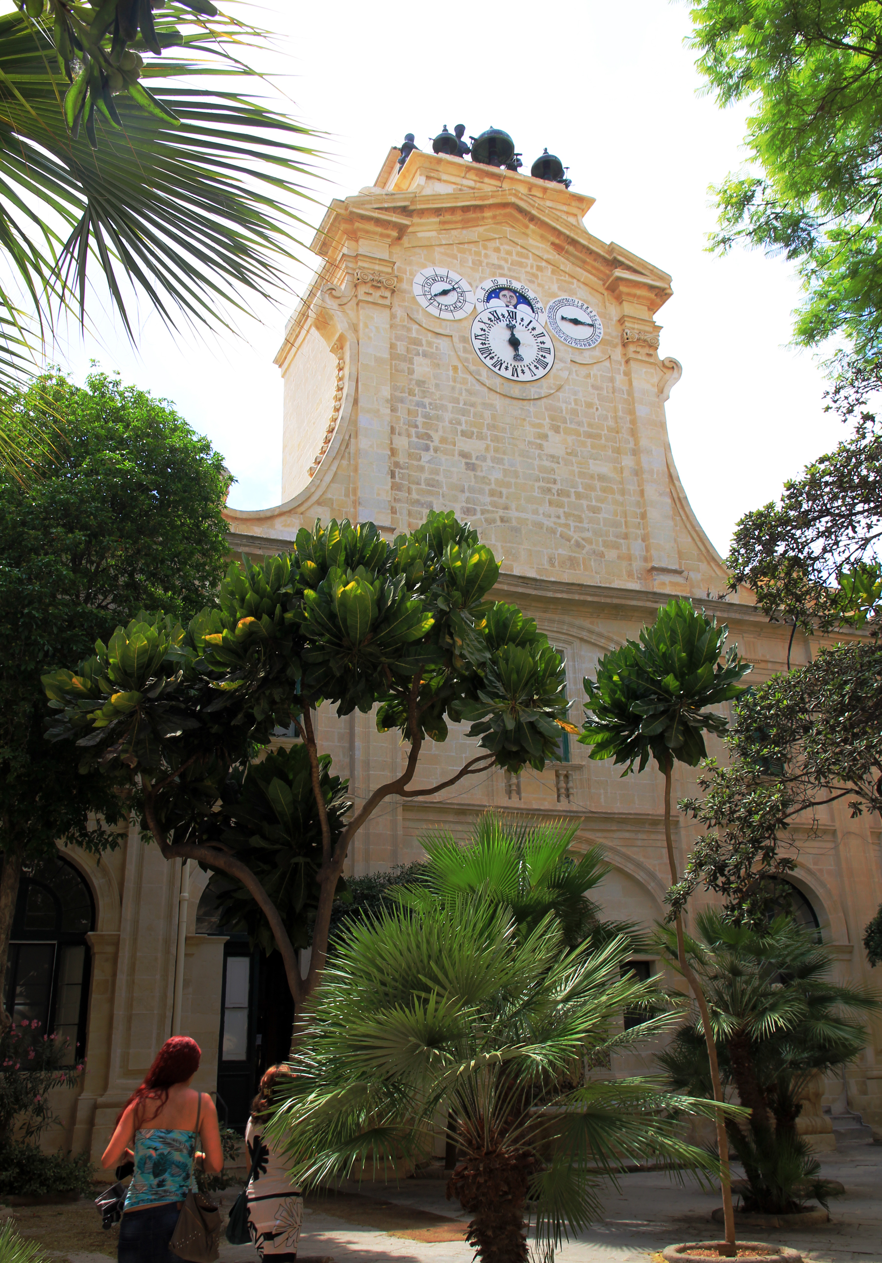 Tower with clocks on one of the Grandmaster's Palace courtyards, Triq ir-Repubblika in Valletta, Malta